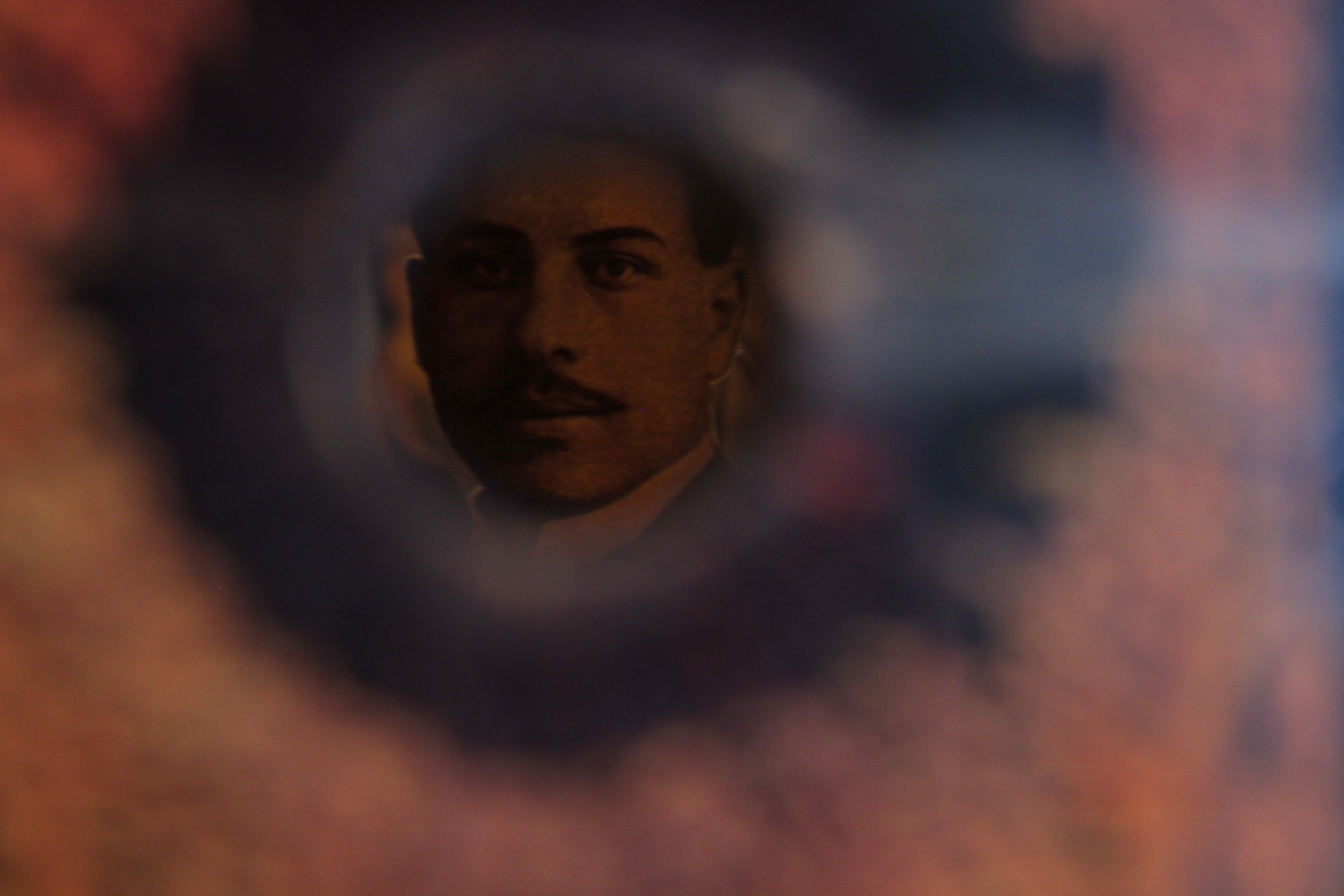 Image of the poet Ramón López Velarde at the Museum Museo Casa del Poeta Ramón López Velarde in Col. Roma in Mexico City.